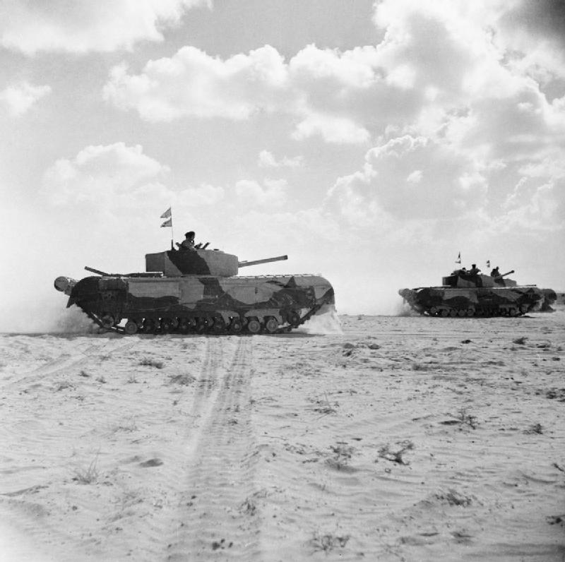 Churchill III tanks of 'Kingforce', 1st Armoured Division, in the Western Desert, 5 November 1942. Churchill III tanks of 'Kingforce', 1st Armoured Division, 5 November 1942. The unit was named Kingforce after its commander, Major Norris King MC.